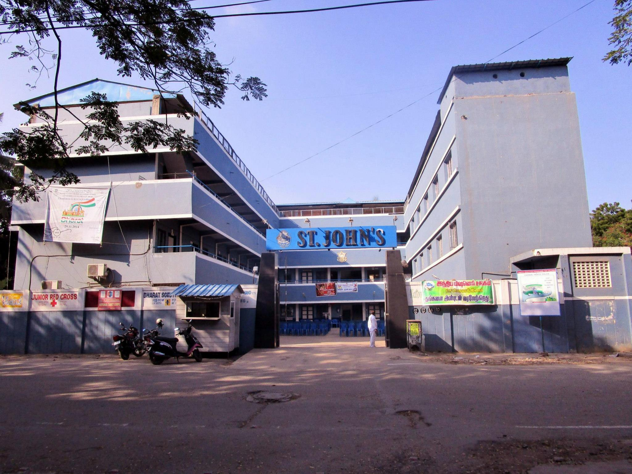 Picture of St._John's Matriculation Higher Secondary School Alwarthirunagar Building